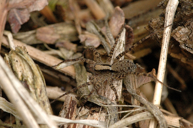 female Pardosa lugubris from Commanster, Belgian High Ardennes .